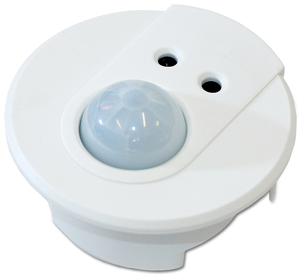 Multisensor 312 allows 3 different type of control: constant light level, presence detector and distance control